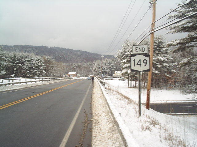 The mis-signed and false western terminus of New York State Route 149 in the town of Queensbury. Route 149 actually ends at Interstate 87 along U.S. Route 9 in French Mountain.